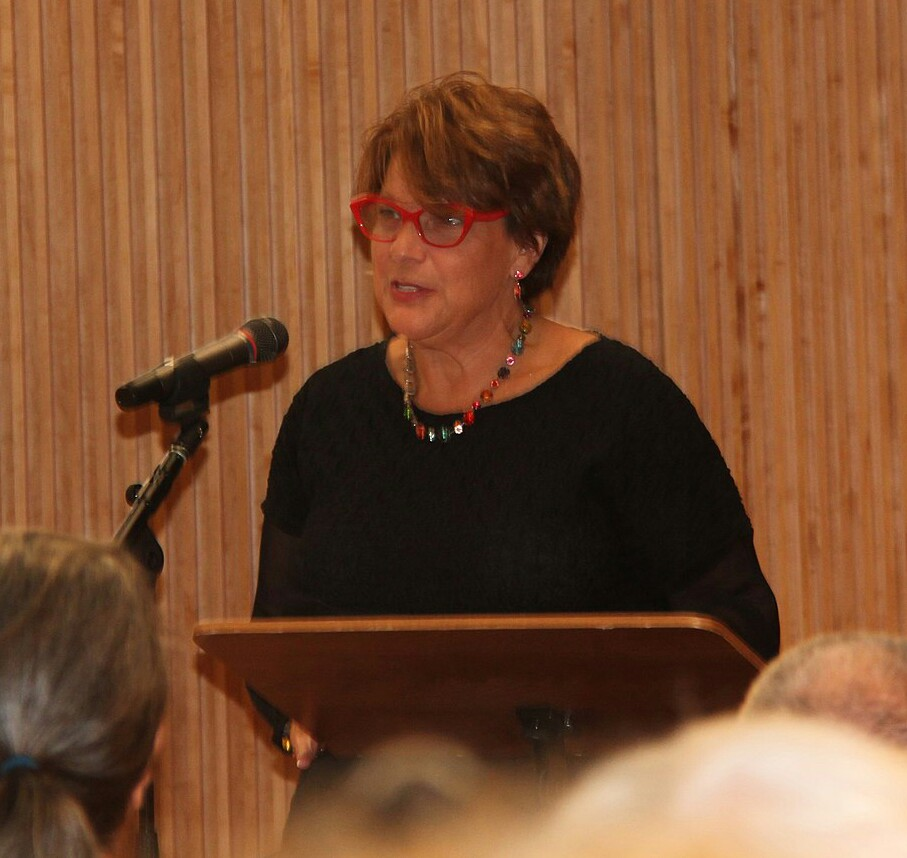 In this dazzling 1969 film, documentarian Morton Silverstein celebrates Yiddish Theater in America from its Bowery roots to its Second Avenue heyday. Silverstein’s documentary is an unmatched chronicle of east side history, featuring rare footage of bustling Second Avenue and scenes of the best known Yiddish plays and movies. Paul Muni, Celia Adler, and Molly Picon – major players in the Yiddish theatre scene – all make an appearance. Narrated by Broadway and Hollywood actor Herschel Bernardi, this film is a celebration of Second Avenue’s former place in stage history. Special introductory remarks by Rita Silverstein and Sharon Lebewohl and Elissa Sampson. Screening to raise awareness for the efforts to relocate and restore the Abe Lebewohl Yiddish Theater Walk of Fame. Sponsored by Friends of Abe Lebewohl Yiddish Theatre Walk of Fame, Bowery Alliance of Neighbors, Friends of the Lower East Side, and 3rD Street Music School.